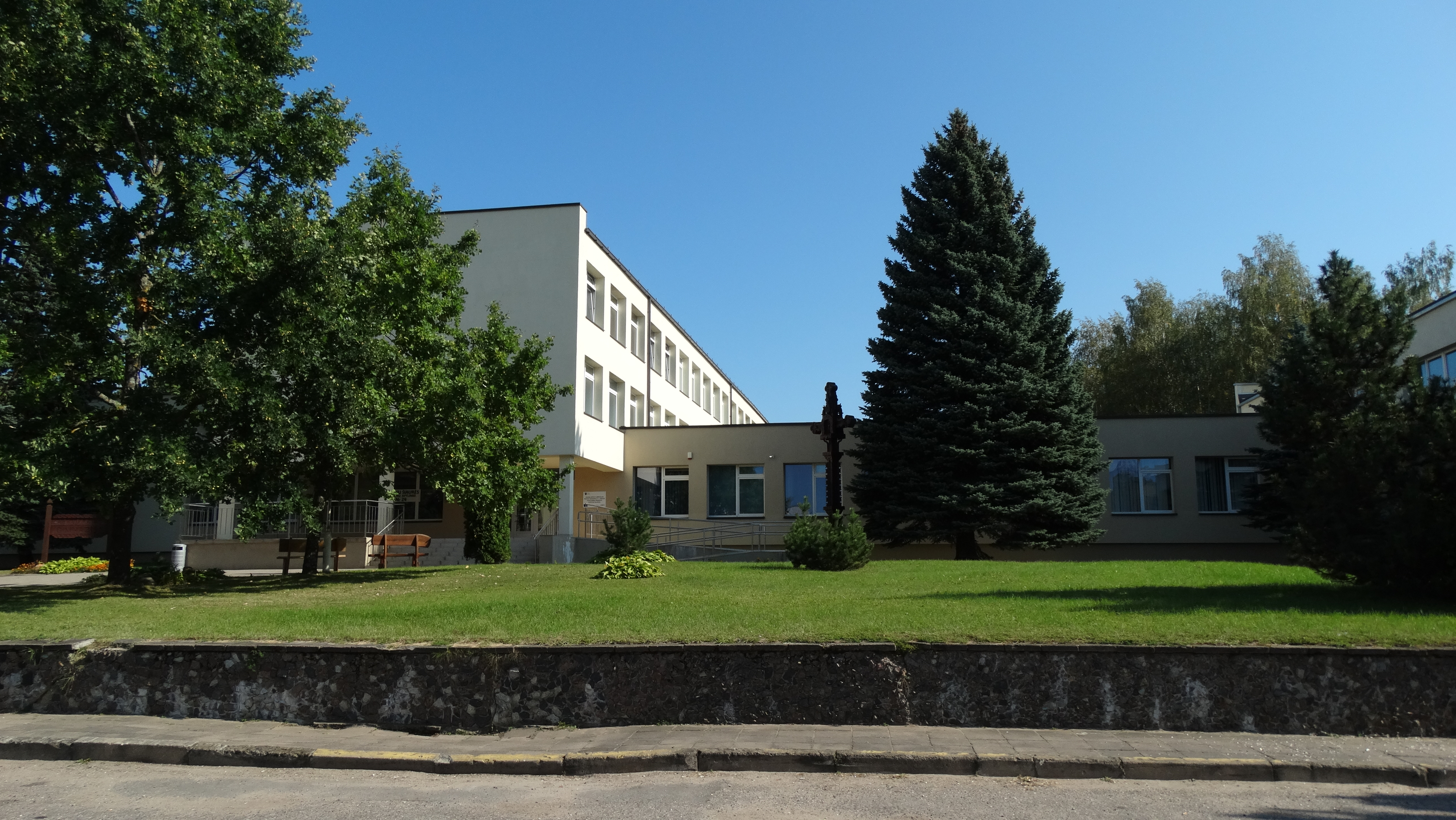 „Ąžuolas“ Gymnasium, Zarasai, Lithuania